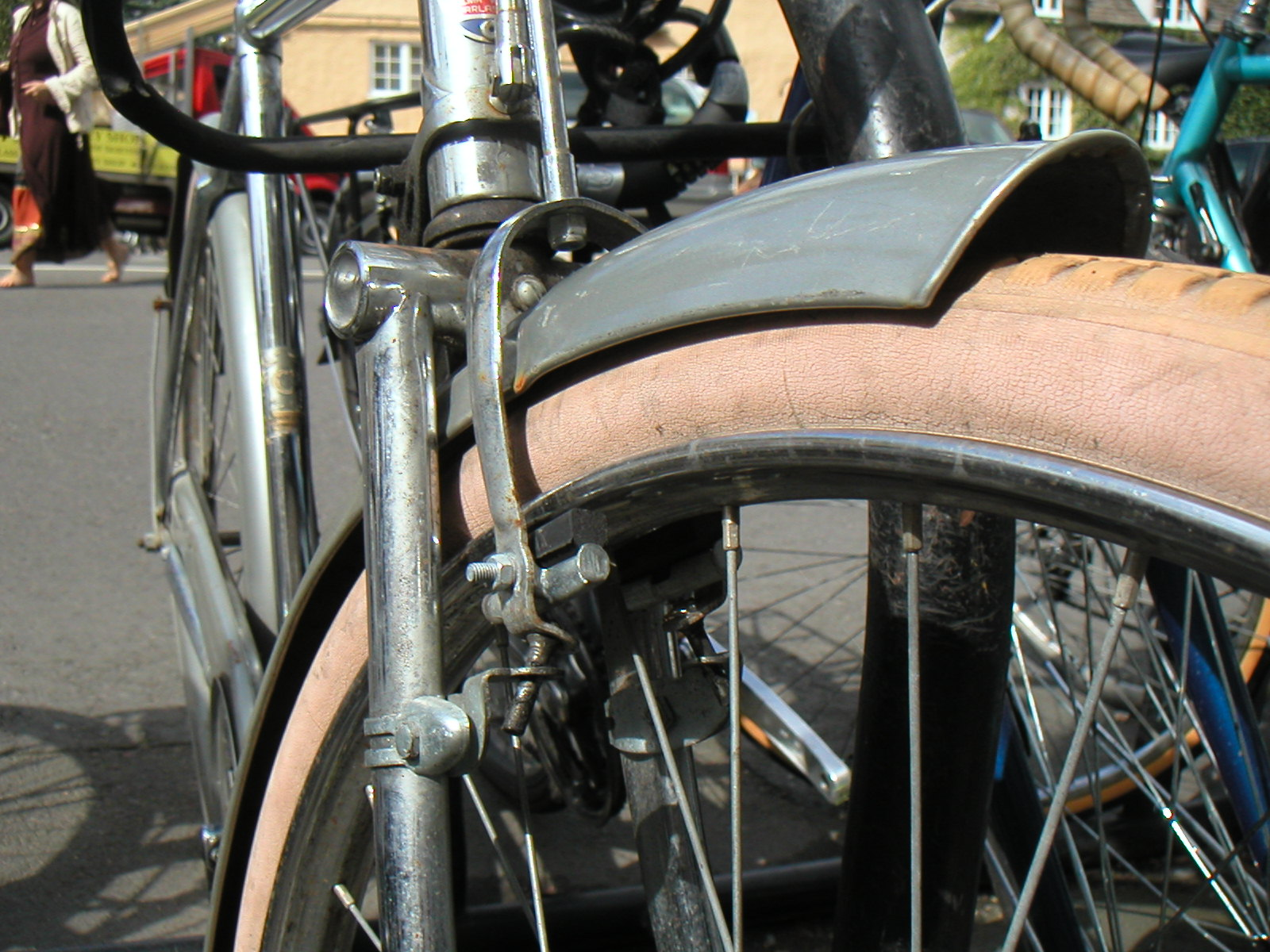 Photo of a Westwood rim